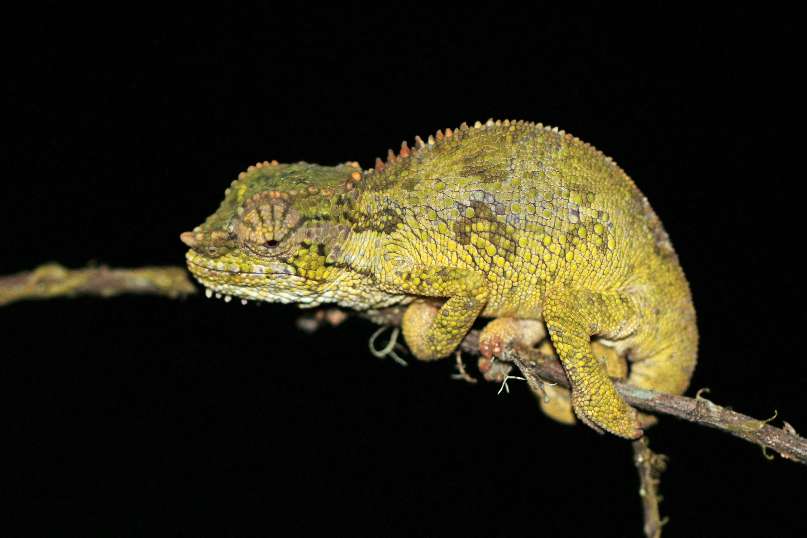 Bale mountains two-horned chameleon (Trioceros balebicornutus), Bale Mountains, Ethiopia